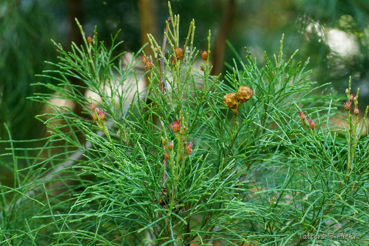 By Tatiana Gerus: " Not a pine! not conifer. Gymnostoma australianum It is a rare small tree from the World Heritage Forests of Far North Australia. Common name is Daintree pine, but it is not a conifer, it is related to She-oak (Casuarina) Evergreen. Fossil records dating back to the Gondwana period. Became popular in cultivation. Family: Casuarinaceae Mount Coot-tha Botanic garden, Brisbane, on the 25th May 2014 "